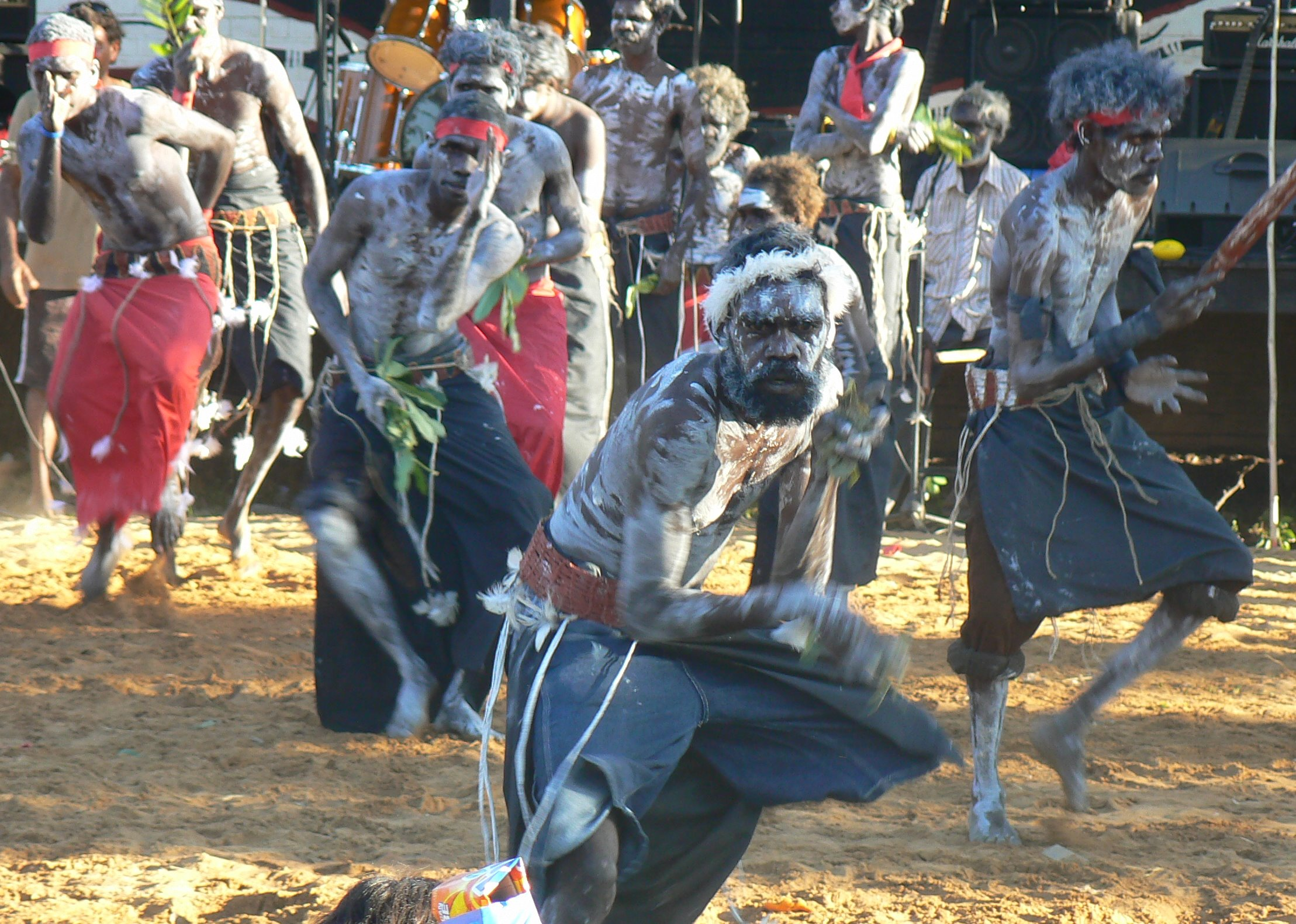 Taken at Barunga Dance Festival Northern Territory